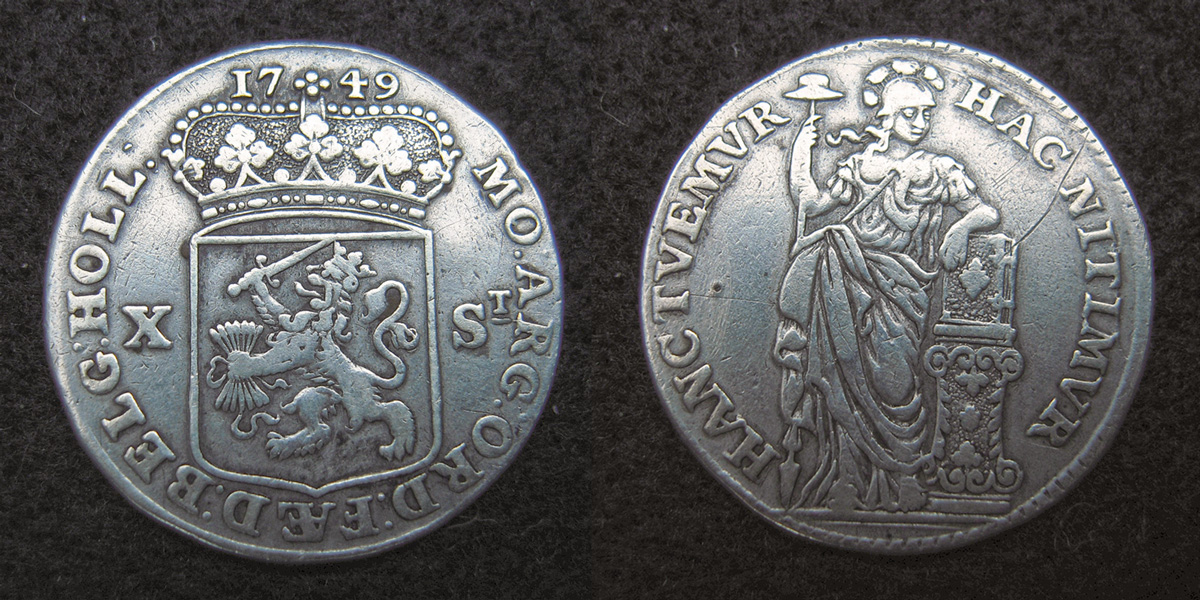 Holland, 10 stiver or half guilder 1749, silver, Dordrecht mint.